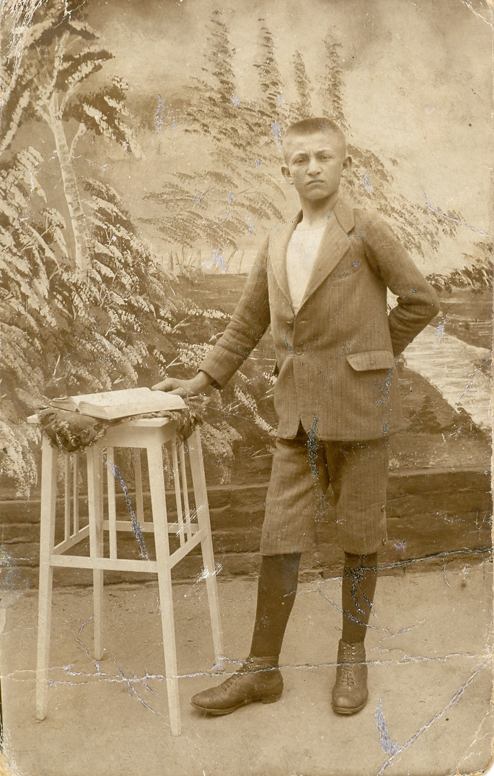 Photograph of Žarko Zrenjanin (1902-1942), revolutionary and National Hero of Yugoslavia, as an elementary school student. Srpski (latinica): Fotografija Žarka Zrenjanina (1902-1942), revolucionara i narodnog heroja Jugoslavije, kao učenika osnovne škole.